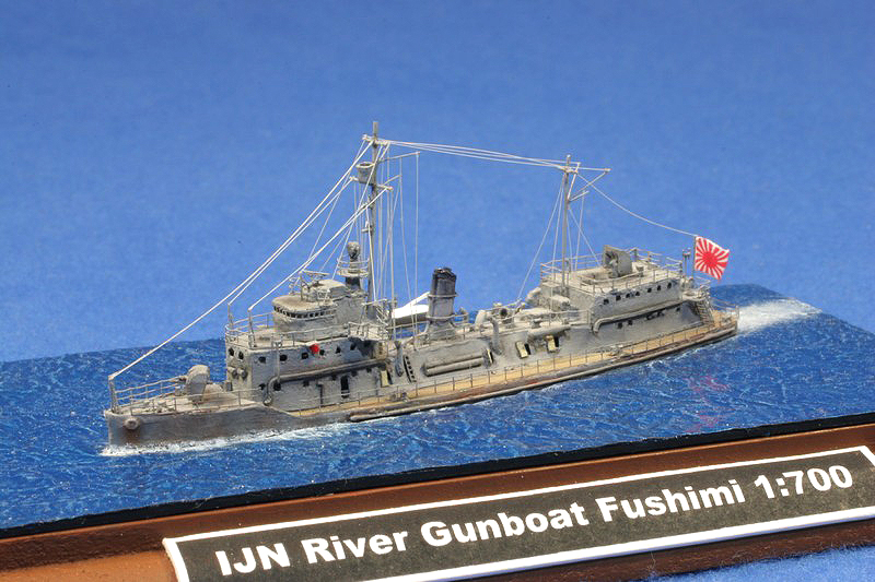 A scratch-built model of 1/700 scale WW2 Japanese River Gunboat Fushimi, winner of scratch-built category in Australian Model Expo 2010.